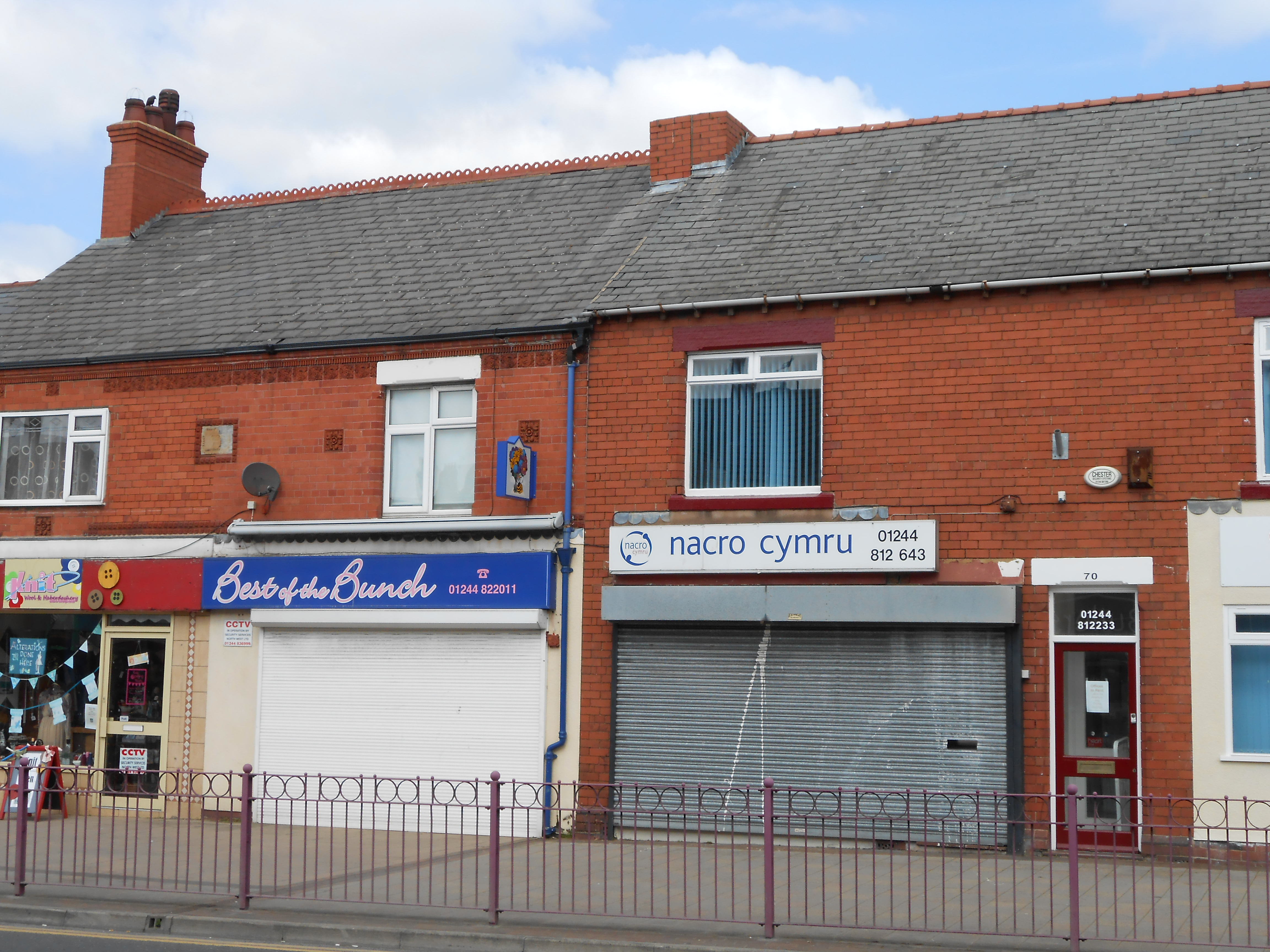 Nacro Cymru, Chester Road West, Shotton, Flintshire, Wales.